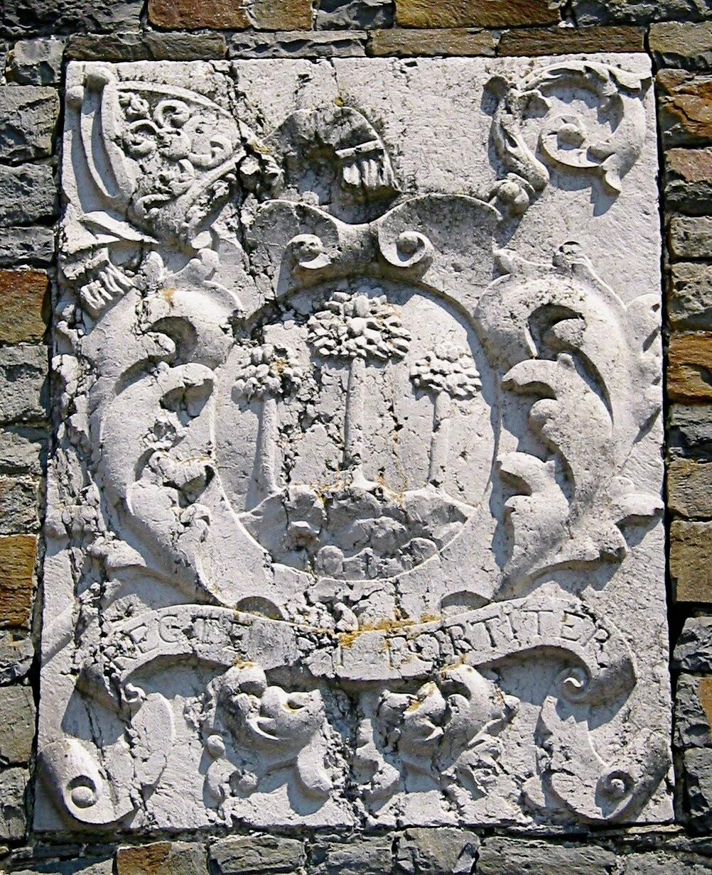 Aubel (Belgium), carved stone with coats of arms - watermill front wall of the "Val Dieu" abbey. Walon: Aubel (Bèljike), blason scultè dins l’pîre – d’vanture do molin di l’abèye do « Val do Bon Diu ».